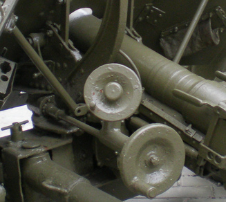 An artillery piece at the Museum of Military Glory in Homel, Belarus.